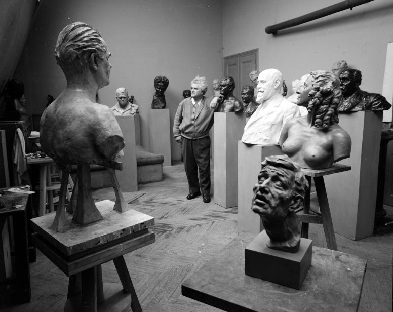 Gustinus Ambrosi (1893–1975), Austrian sculptor, in his studio.